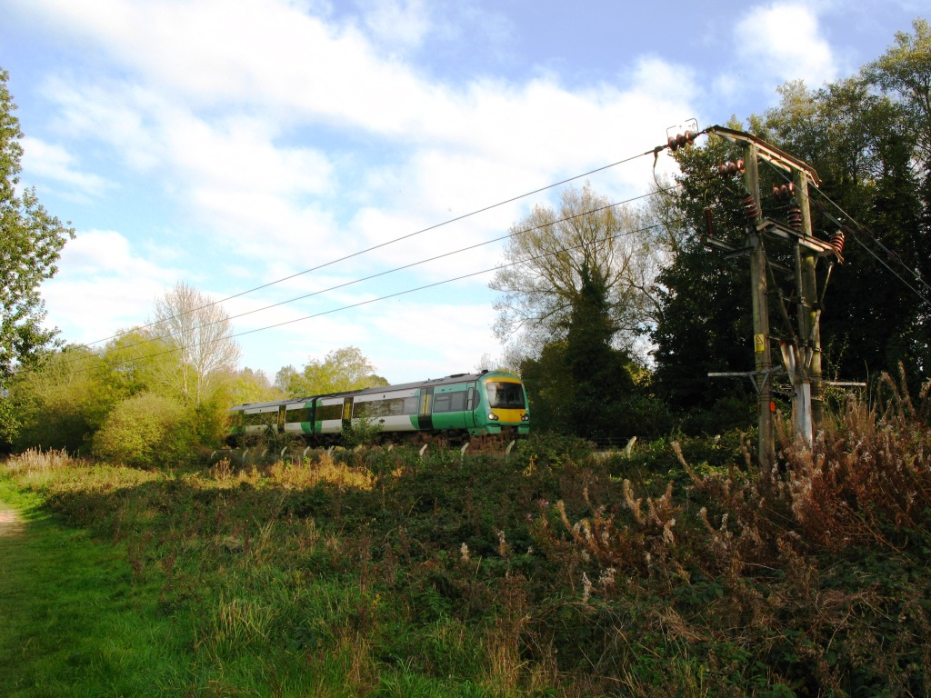 Southern diesel unit 171729 approaches Uckfield, the terminus of the Oxted Line in East Sussex.